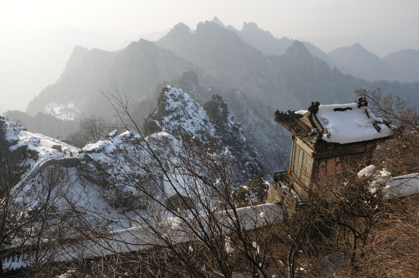 The Wudang Mountains in China.